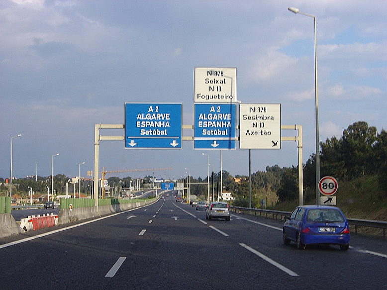 A2 highway, Fogueteiro exit, Seixal, Portugal